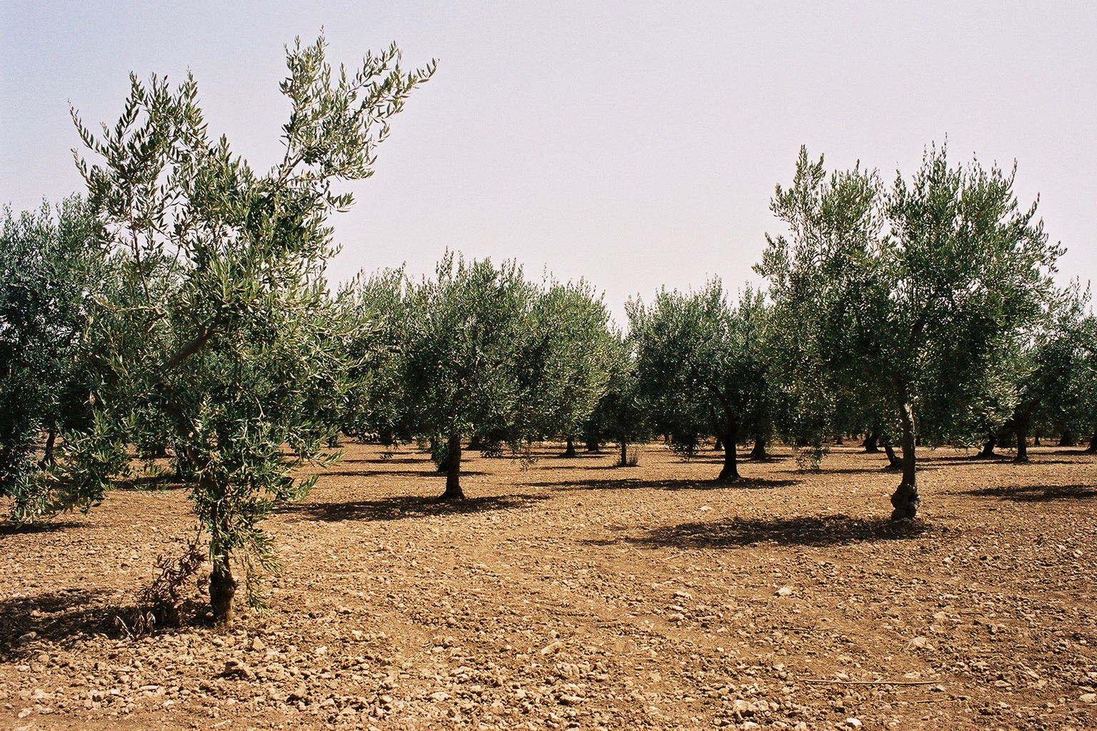 Campobello di Mazara: Olive grove near Rocche di Cusa Sicily - Italy.